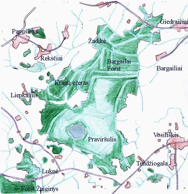 map of Praviršulis, Lithuania